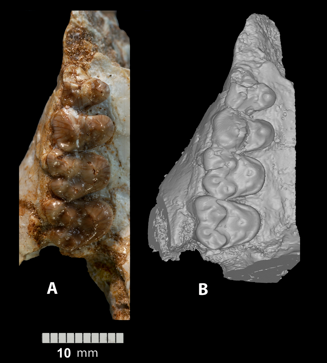 Ocepeia daouiensis, Selandian, Phosphate level IIa of Sidi Chennane, Ouled Abdoun Basin, Morocco. Specimen MNHN.F PM45-1 (female individual), right maxillary with P3–4, M1–2, in occlusal view (A), and 3D modelling from CT scan images (B). Scale bar: 10 mm.